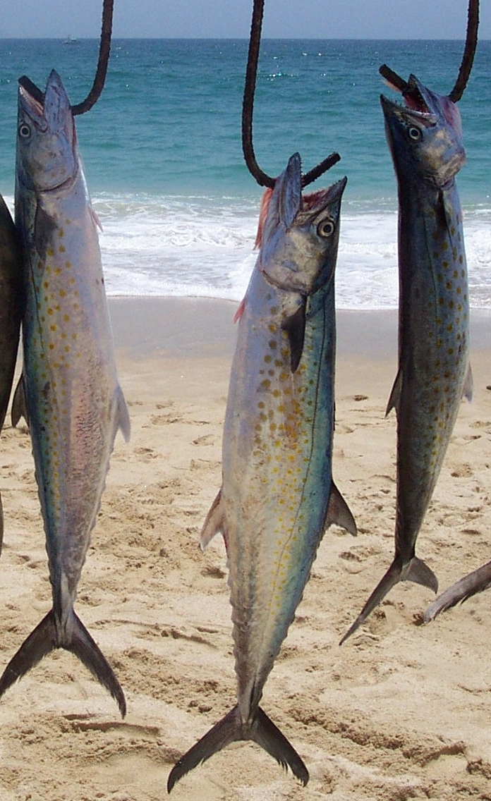 Thazard Sierra